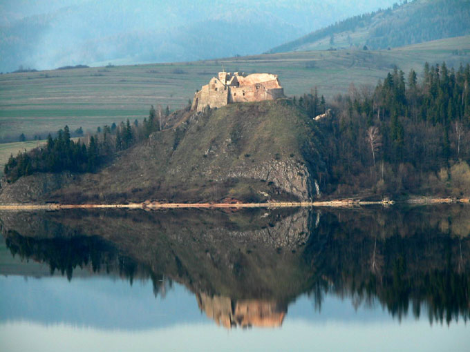 Czorsztyn castle ruins